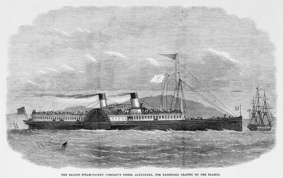 Alexandra, steamboat on the Thames